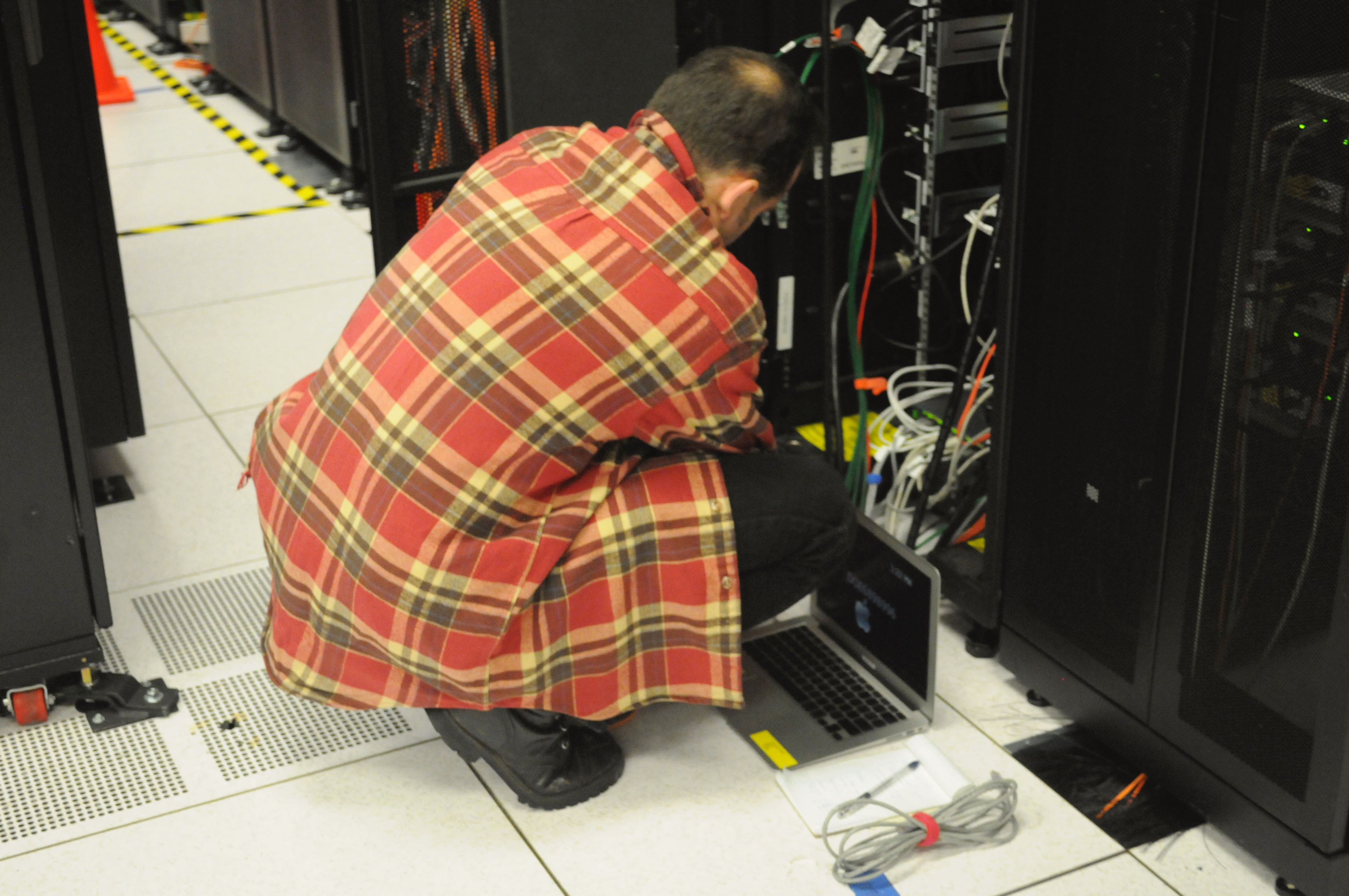 CC0 waiver: To the extent possible under law, I waive all copyright and related or neighboring rights to this work.